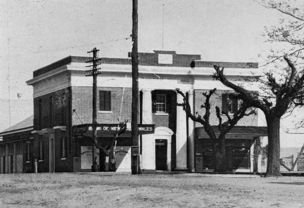 Town Hall, Charleville, 1933. Charleville is the largest town in South West Queensland and has a population of approximately 3300 people. It is a rich pastoral area and was first explored by Edmund Kennedy in 1847. Charleville was named by Surveyor W. Tully for his hometown in Ireland. Cobb and Co established their largest and longest running coach making factory in Charleville in 1886 and the railway line was connected from Brisbane in 1888. Charleville was one of the first airports used by Qantas to fly paying passengers to Longreach in 1922. It is also home to the Royal Flying Doctor Service and the Charleville School of the Air. The town hall building was erected in 1926 and stands on the corner of Wills and Edward Streets, Charleville.